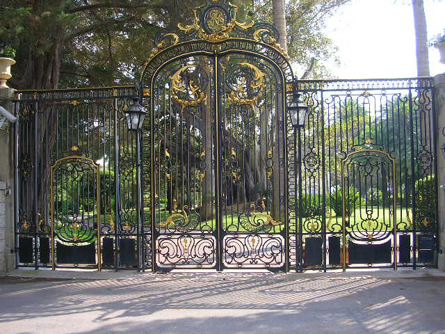 Gates to the villa named "Nellcôte" in Villefranche-sur-Mer, South of France (address: 10 Avenue Louise Bordes, 06230 Villefranche-sur-Mer, France). The wall shows a name plate reading "NELLCOTE".